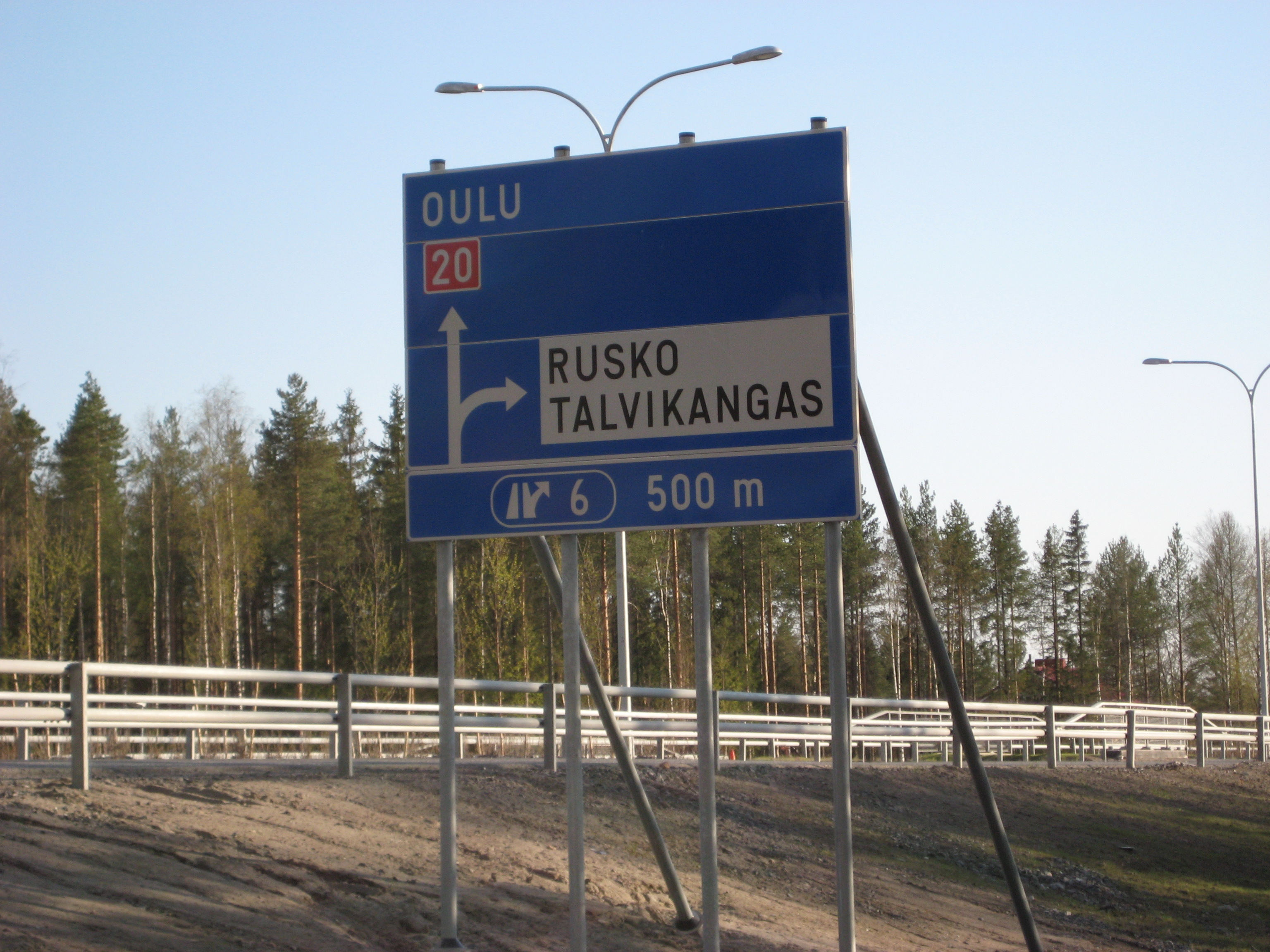 The advance direction sign for the junction with the Liitintie road in Talvikangas, Oulu, Finland, looking south-west (towards Oulu).